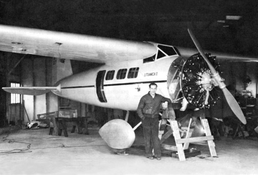 Feliksas Vaitkus before Lituanica II transatlantic flight.